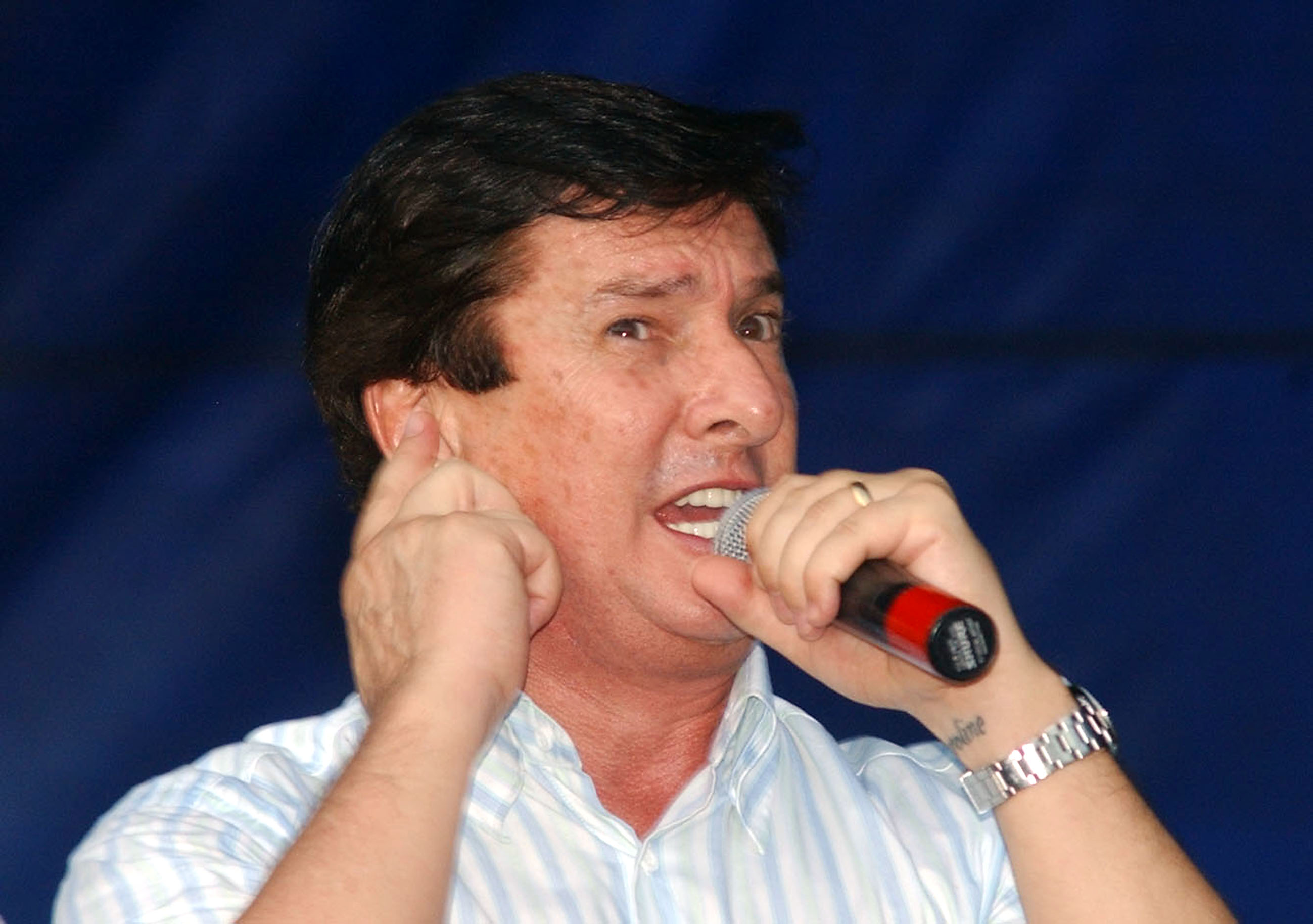 Former Brazilian president Fernando Collor during campaign for Senate in the state of Alagoas.